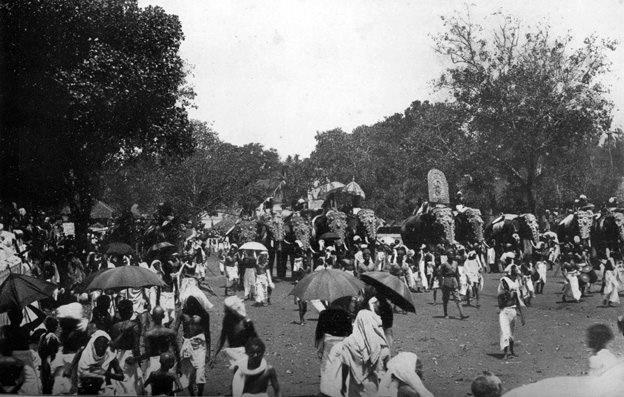 A photograph of Thrissur Pooram published in the book Cochin Castes and Tribes (1912) by L.A. Ananthakrishna Iyer